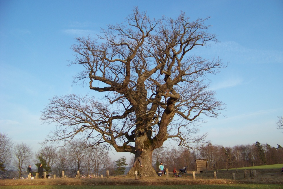 500-year old oak near Ansbach, Bavaria